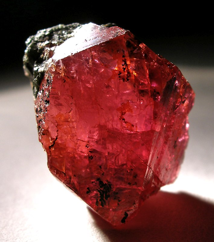 Corundum Locality: Winza, Mpapwa, Mpapwa (Mpwampwa) District, Dodoma region, Tanzania (Locality at ) Size: thumbnail, 1.8 x 1.4 x 0.9 cm RUBY This is a lustrous and gemmy, deep red crystal. It is nearly complete all around, with just minor contact on the back side. For sharpness and clarity, this is one of the larger crystals of quality we have yet seen. There is some cutting rough in this crystal, as well. Seldom do ruby crystals come out of the ground as sharp and lustrous as from this new locality and this is a steller example of what is so "hot" about it. 21.75 carats